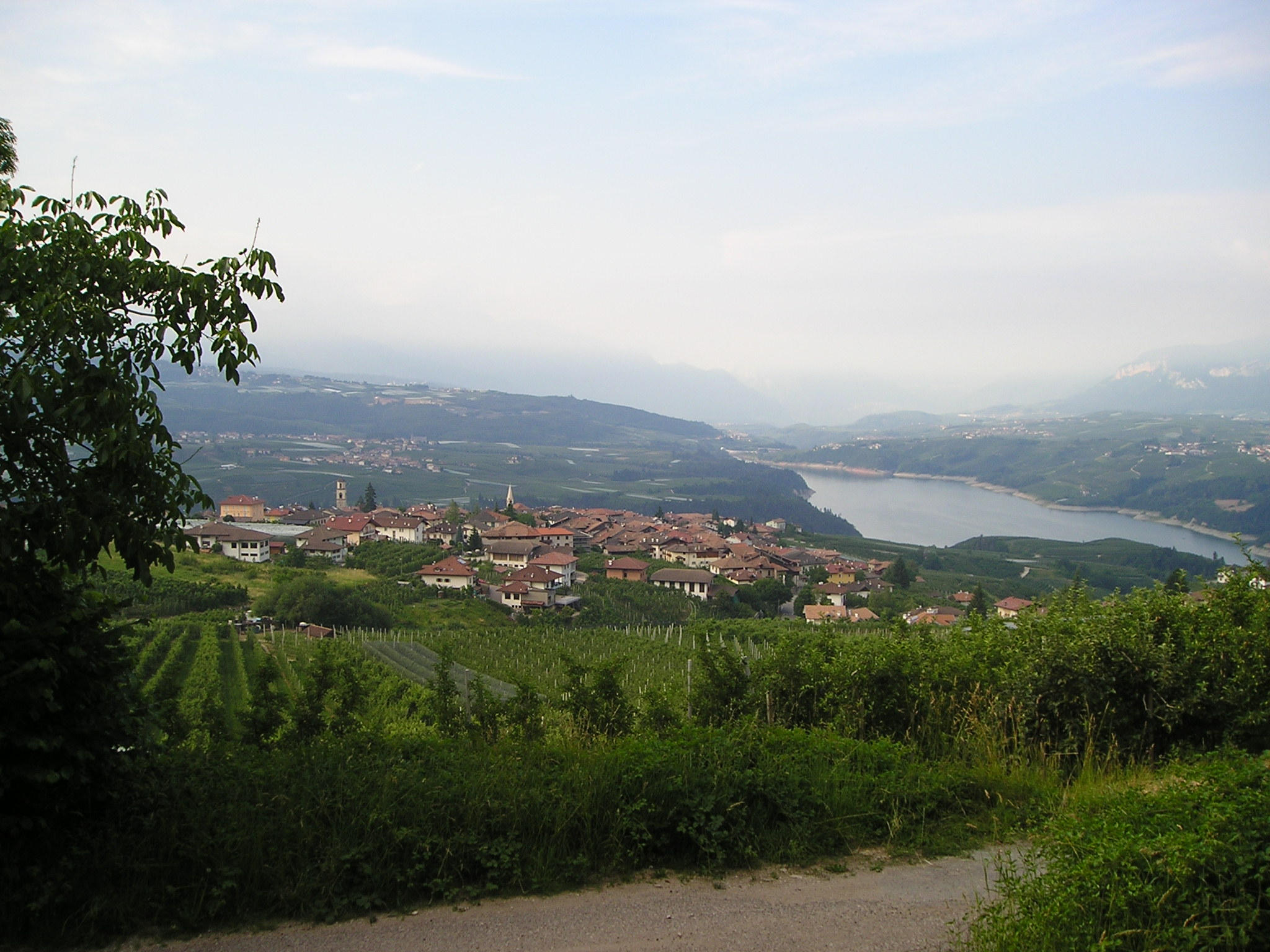 Revò and Lago di Santa Giustina in the Val di Non.